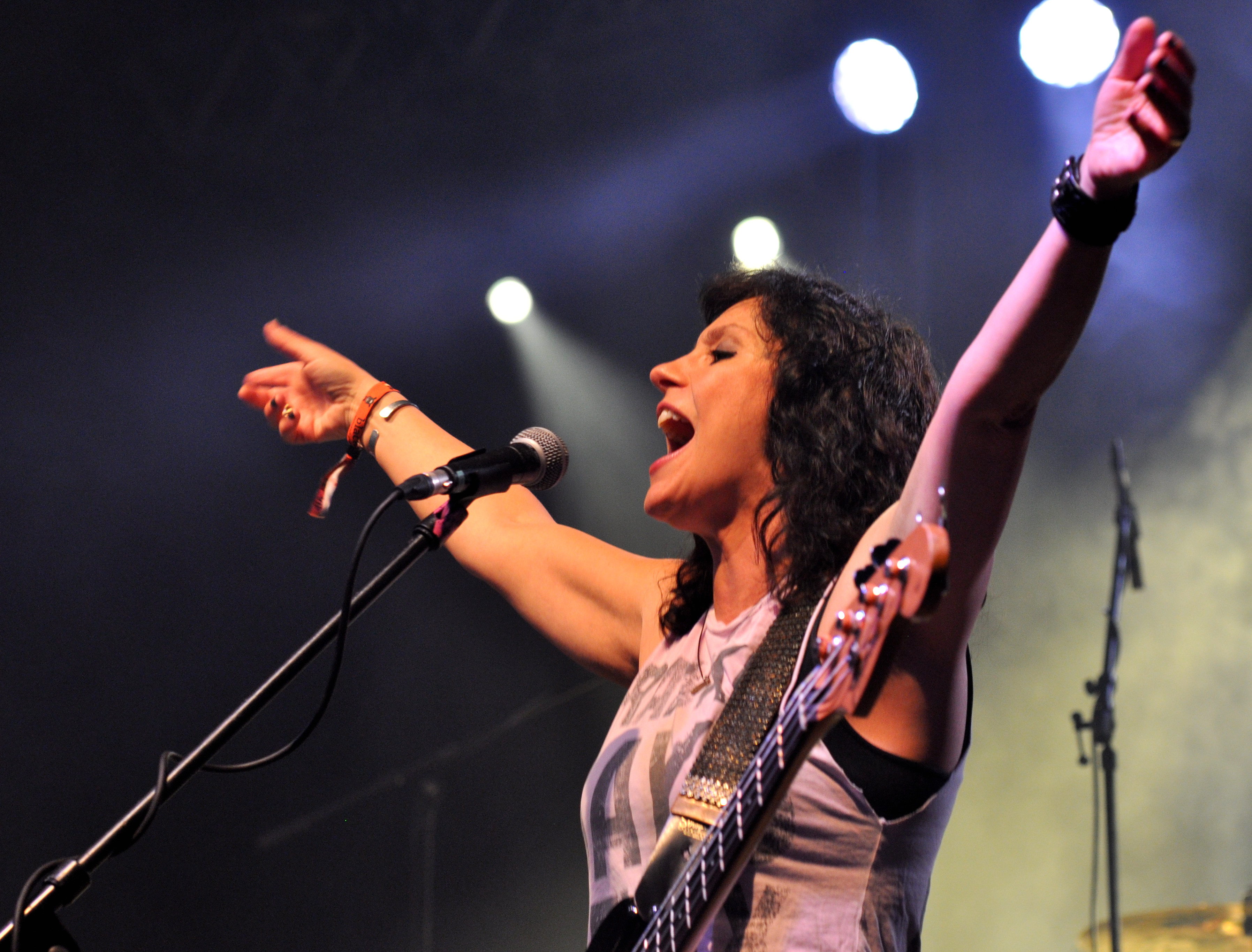 Antigone Rising (USA) appearance at the 2016 blacksheep festival at Bonfeld castle, Bad Rappenau, Baden-Wuerttemberg, Germany Festivalsommer This photo was created with the support of donations to Wikimedia Deutschland in the context of the CPB project "Festival Summer".